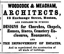 Ad for Woodcock & Meacham, architects (Shepherd S. Woodcock, George F. Meacham); Exchange St., Boston.